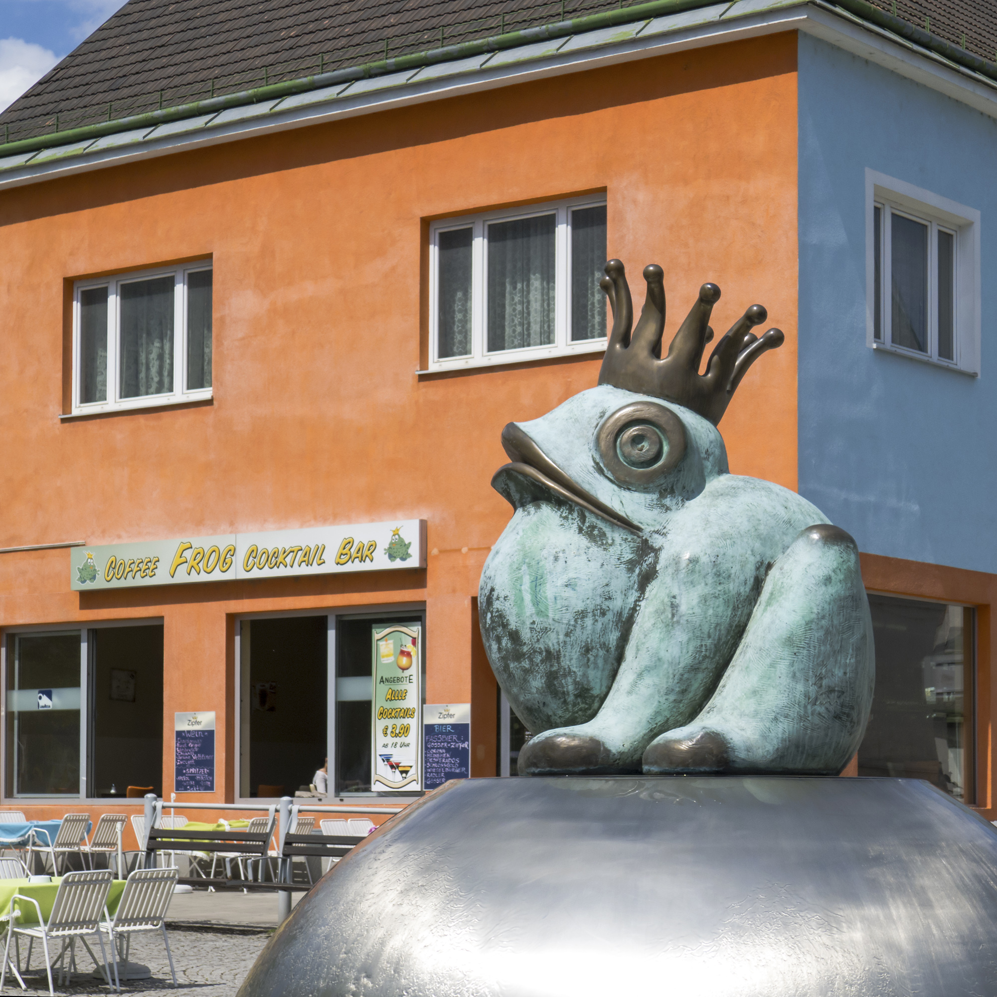 Fountain at the underground station Verkehrsstation Wien Simmering in Vienna